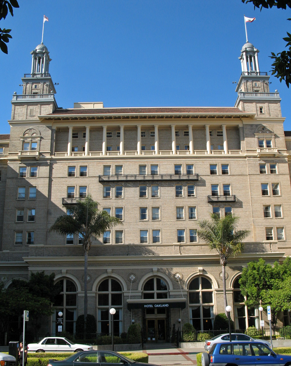 National Register of Historic Places listings in Alameda County, California. Oakland Hotel, 260 13th St., Oakland, CA. Photographed June 27, 2009 from the south side of 14th St. between Harrison and Alice Sts.